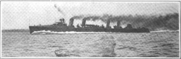 Official Navy photograph, published in Leslie's Weekly Illustrated, on May 18, 1901.